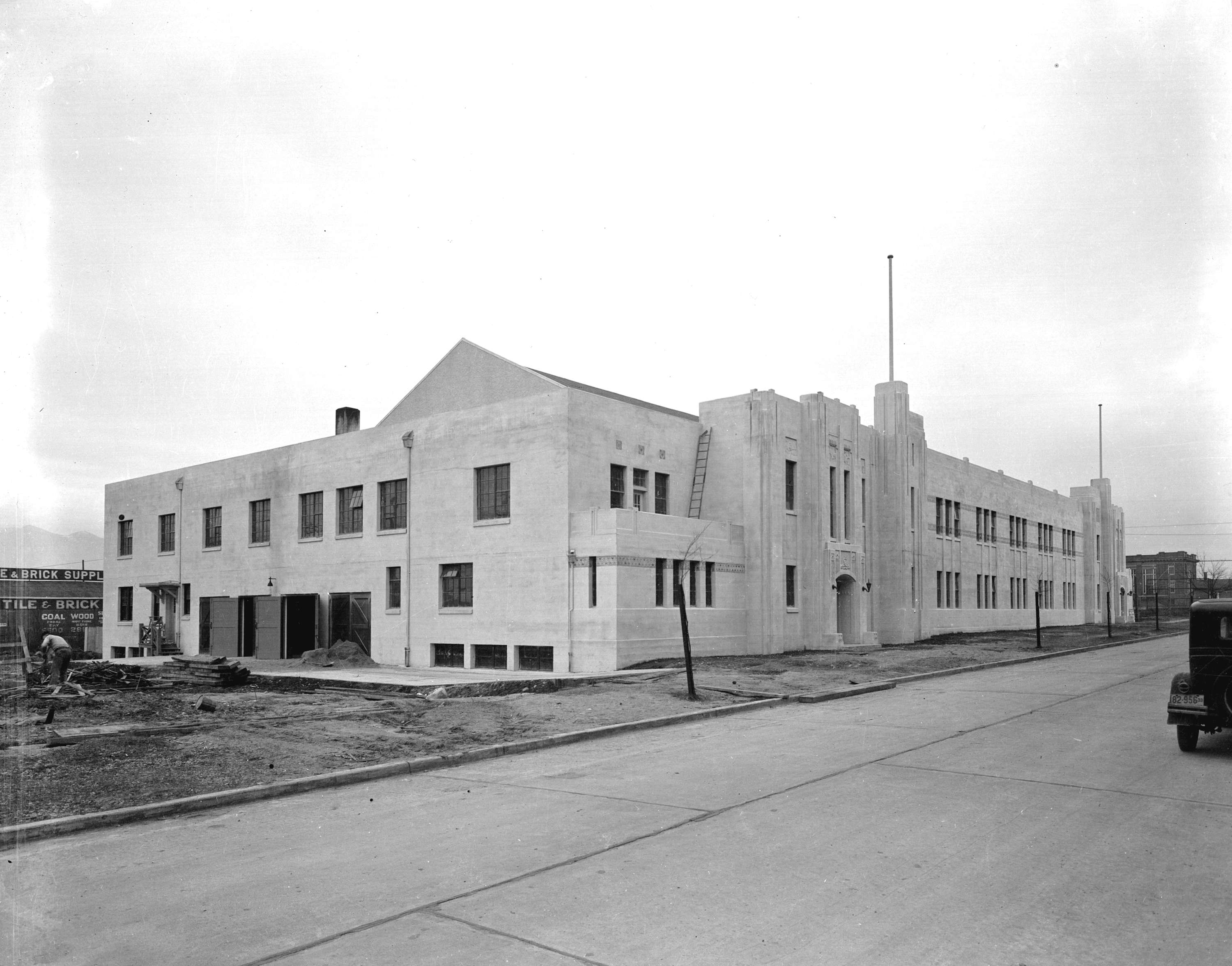 Photograph shows the Bessborough Armoury under construction at 2025 West 11th Avenue, Vancouver.